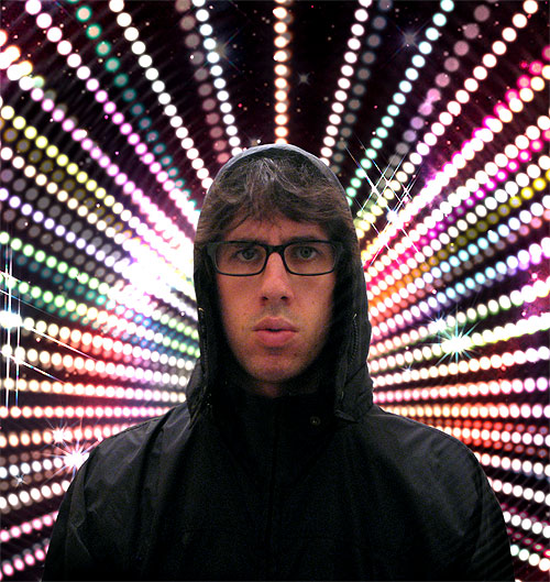 Yameen